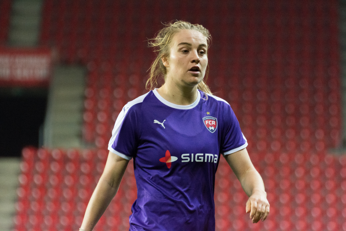 Fiona Brown vs Slavia Praha on 1 November 2018